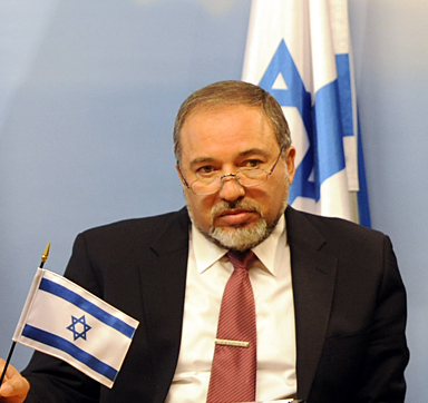 Secretary of Homeland Security, Janet Napolitano reaffirmed strong U.S. Israeli ties by her visit May 20-22. The Secretary signed a pilot program to bring Israel into the Global Entry system, allowing expedited processing for Israelis traveling to the U.S. During her visit, she saw examples of Israeli acumen in crime scene investigation, explosives detection, and the application of high tech to security, particularly in the cyber world. The Secretary also spoke to students and faculty at IDC in Herzliya on the connection between security and economic activity, and noted that the U.S. has learned from Israel’s practices in security and hopes to continue to do so.